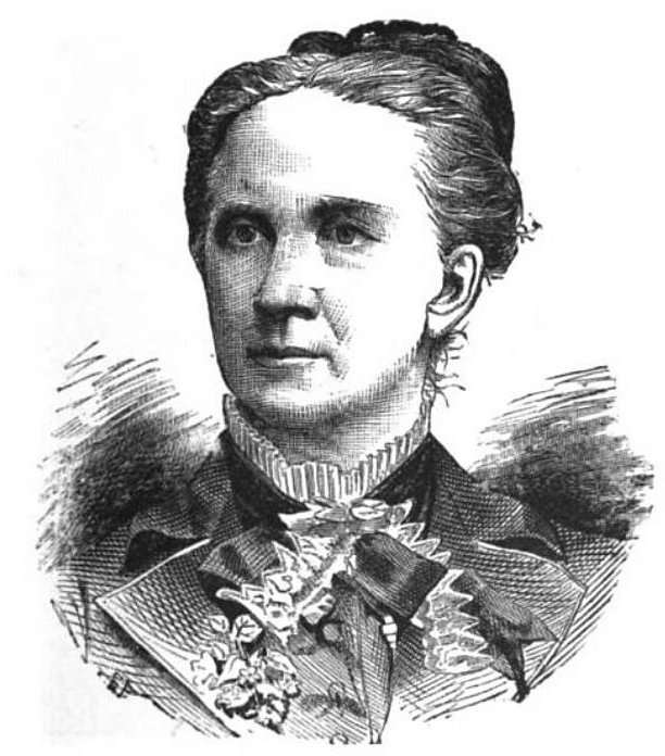 Engraving of Belva Lockwood which appeared in 1883 in Fifty years' recollections, a collection of biographies edited by Jeriah Bonham.